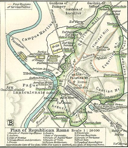 A map of Republican Rome from William R Shepherd's Historical Atlas.